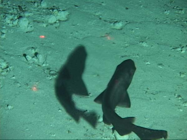 Spongehead catshark (Apristurus spongiceps) at the Northampton Seamount.